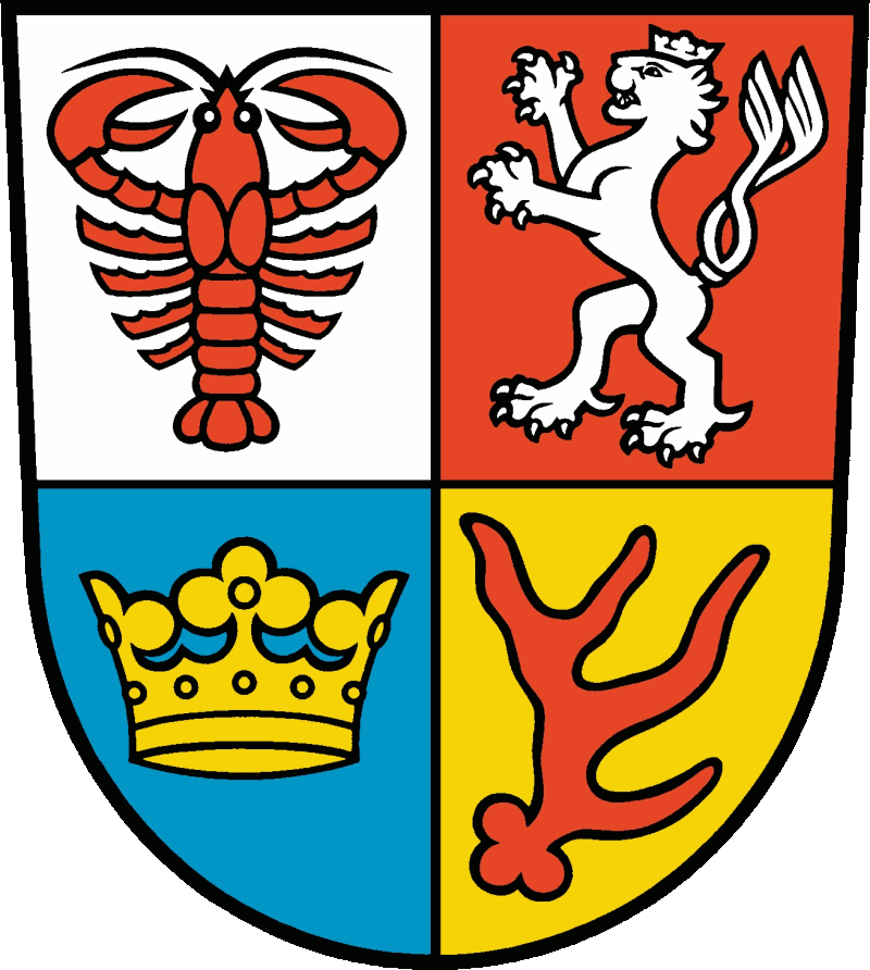 Coat of arms of the district Landkreis Spree-Neiße